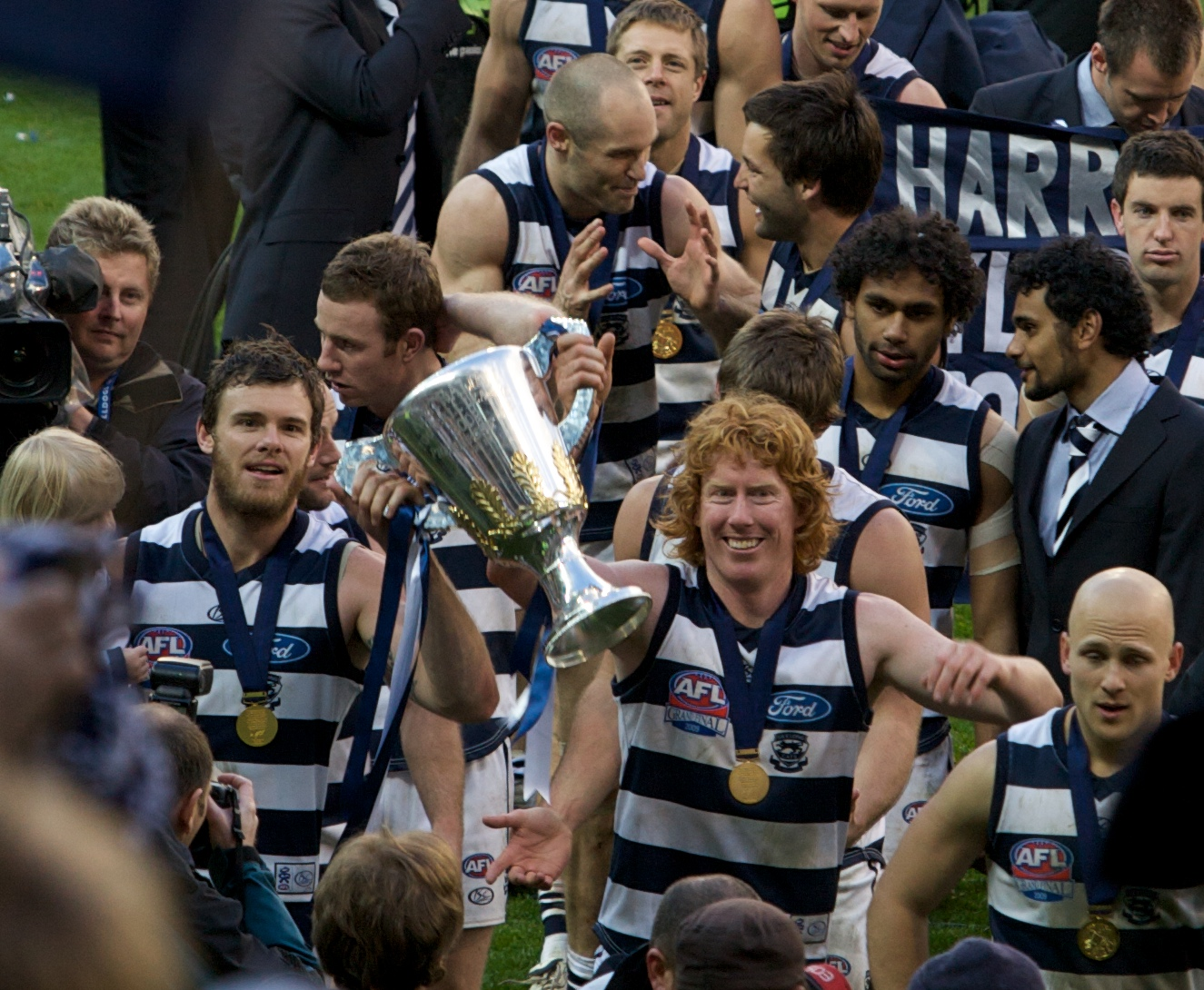 Celebration for the Geelong Football Club. Wikipedia:Cameron Ling, the club's then vice-captain, is seen holding up the cup, along with Cameron Mooney.